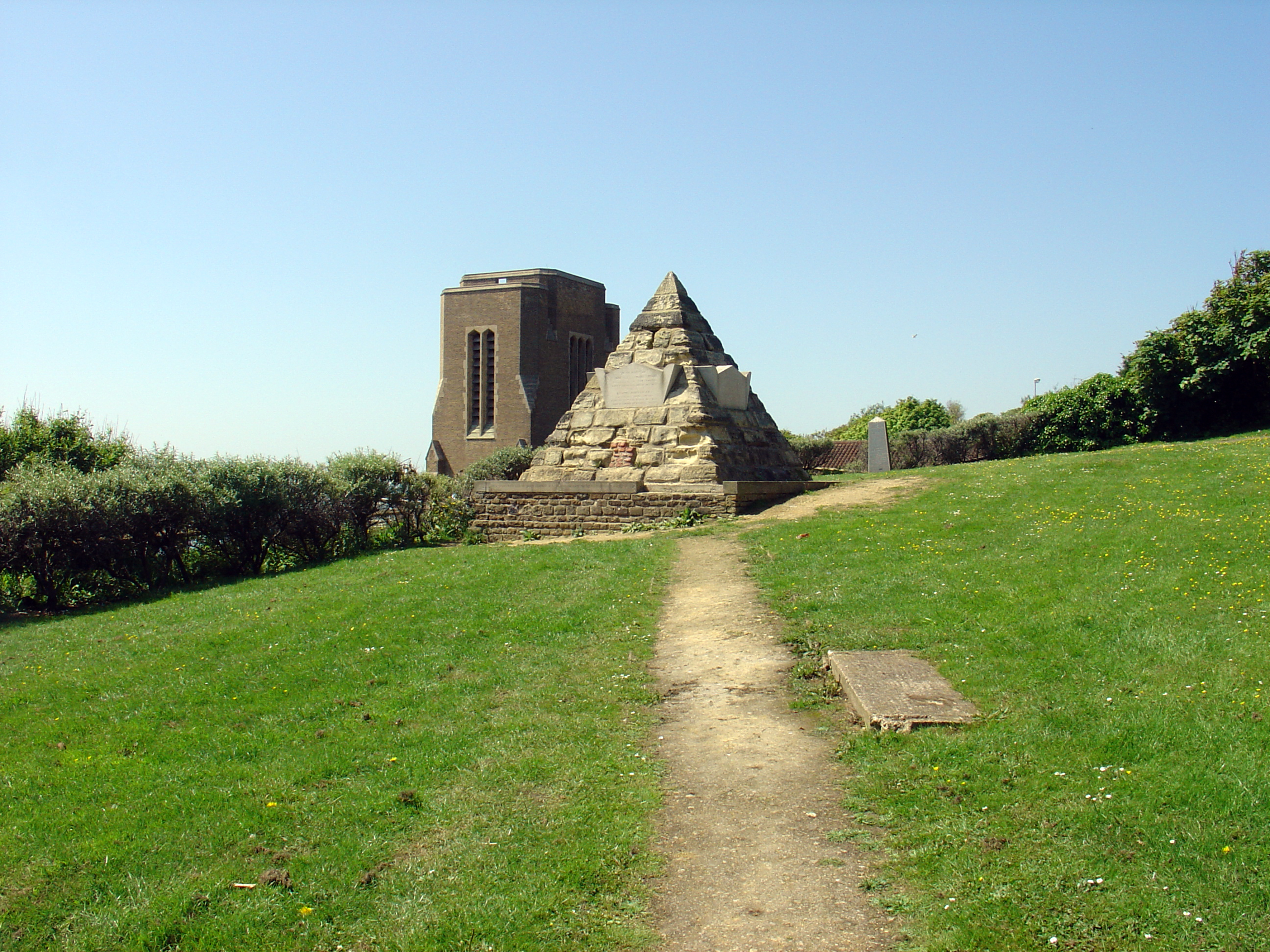 2nd photograph of Tomb of James Burton (1761-1837) at St Leonards-on-Sea